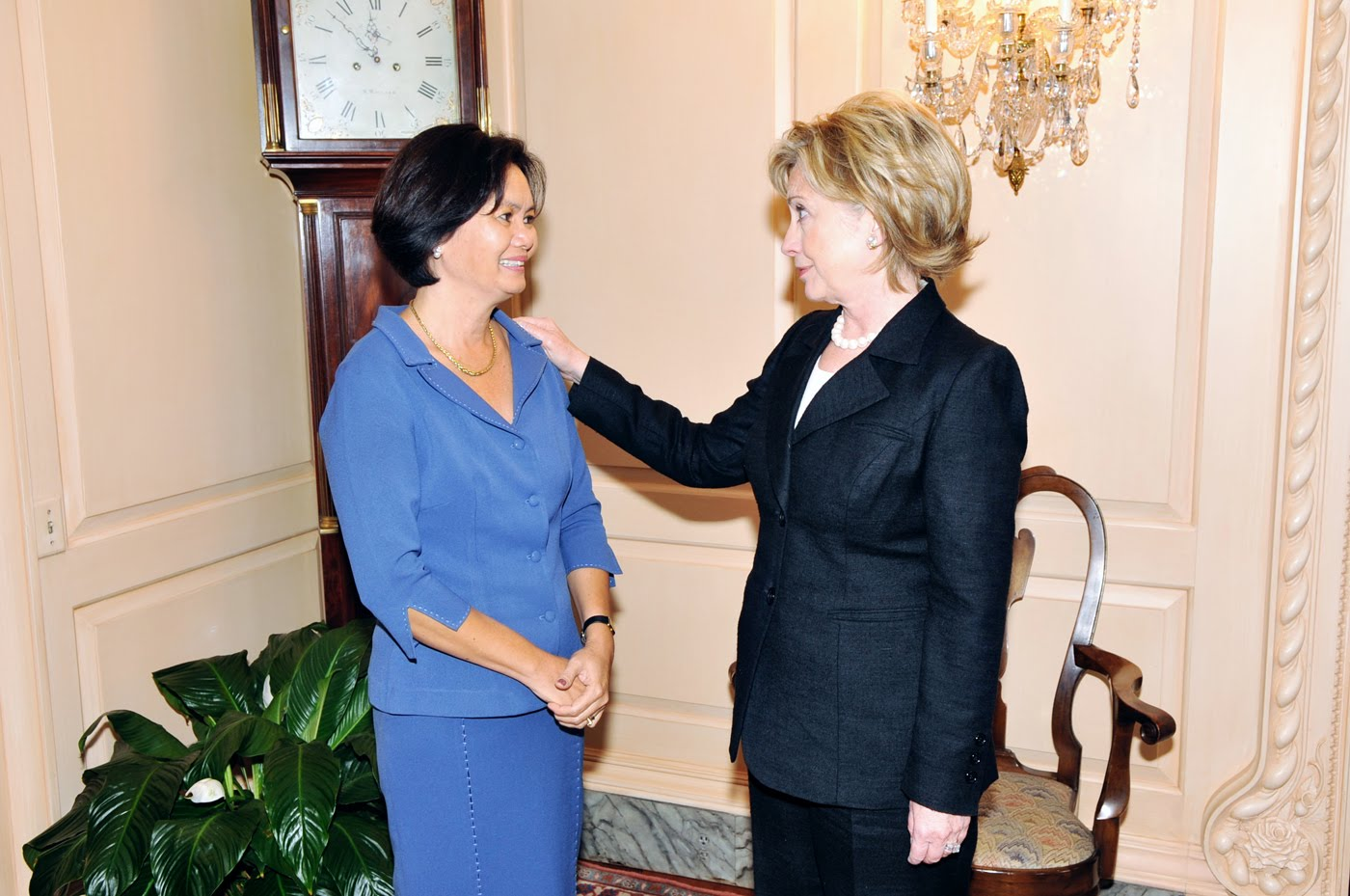 Secretary Clinton and Mu Sochua, Cambodian opposition parliamentarian, discussed the current situation in Cambodia on Friday, September 11, 2009, at the U.S. Department of State in Washington, D.C.